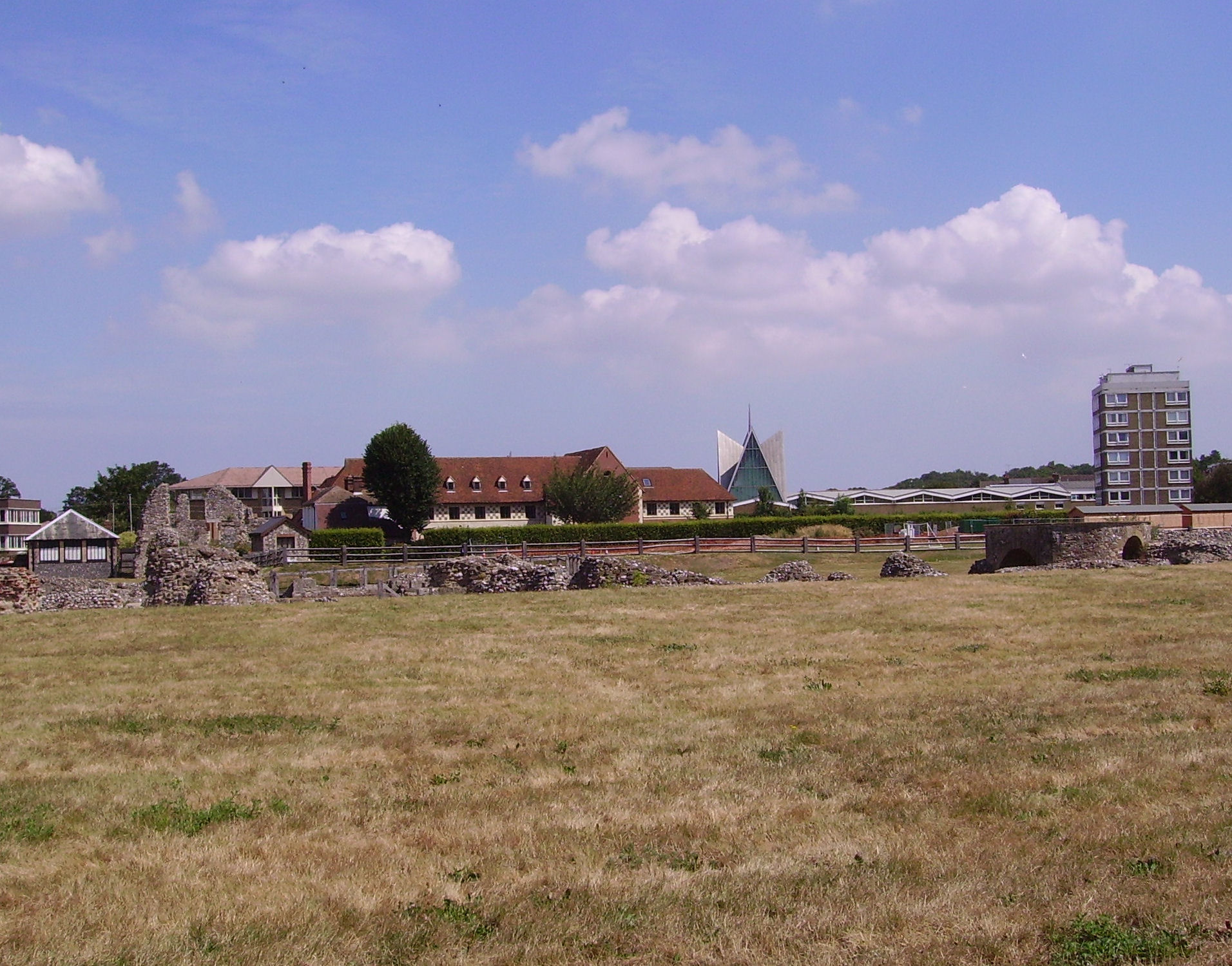 monastery in Canterbury in Kent, United Kingdom